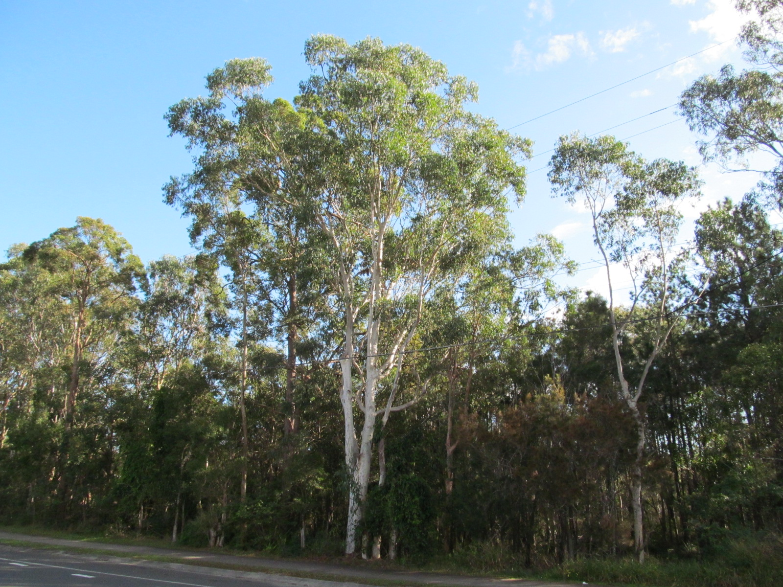 View from Underwood Road, Rochedale, Queensland